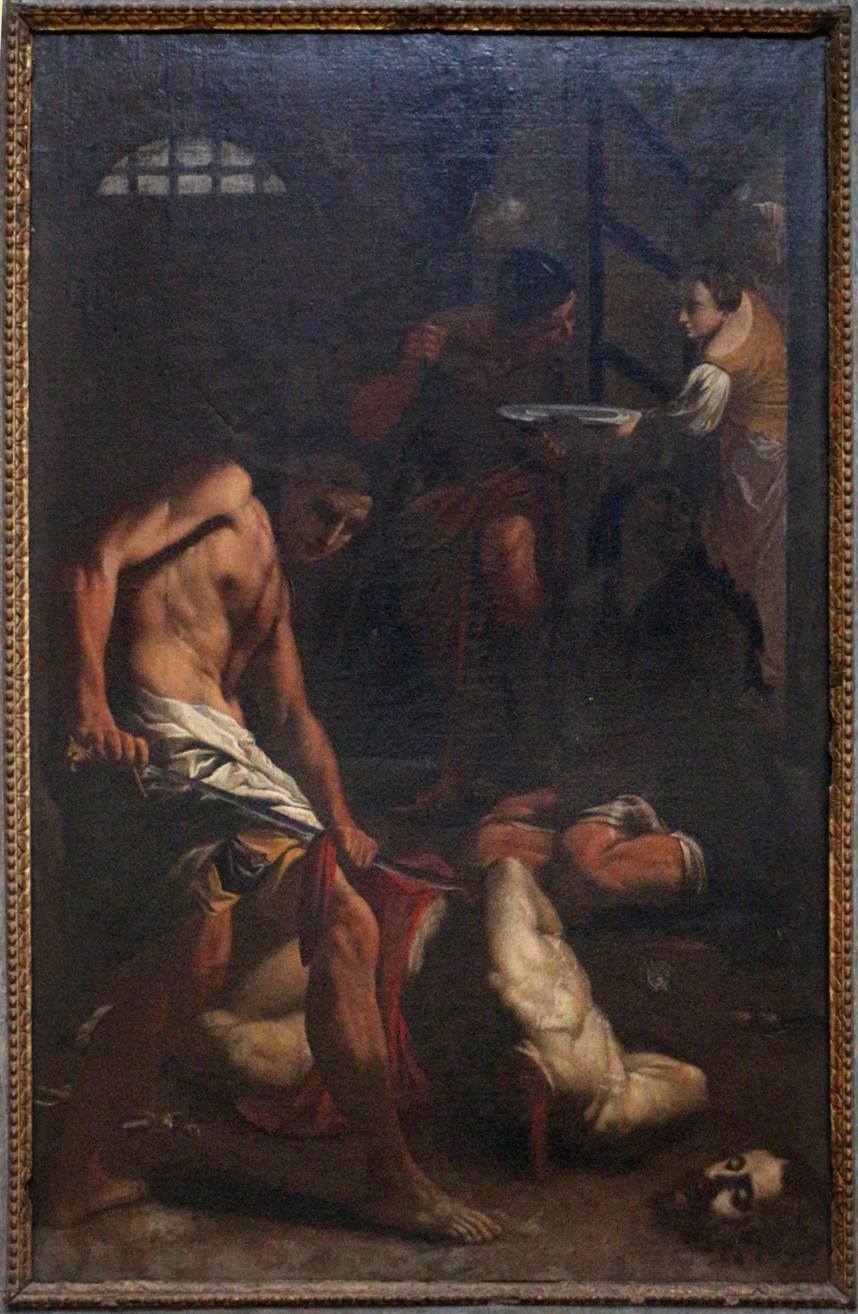 Churches in Comacchio